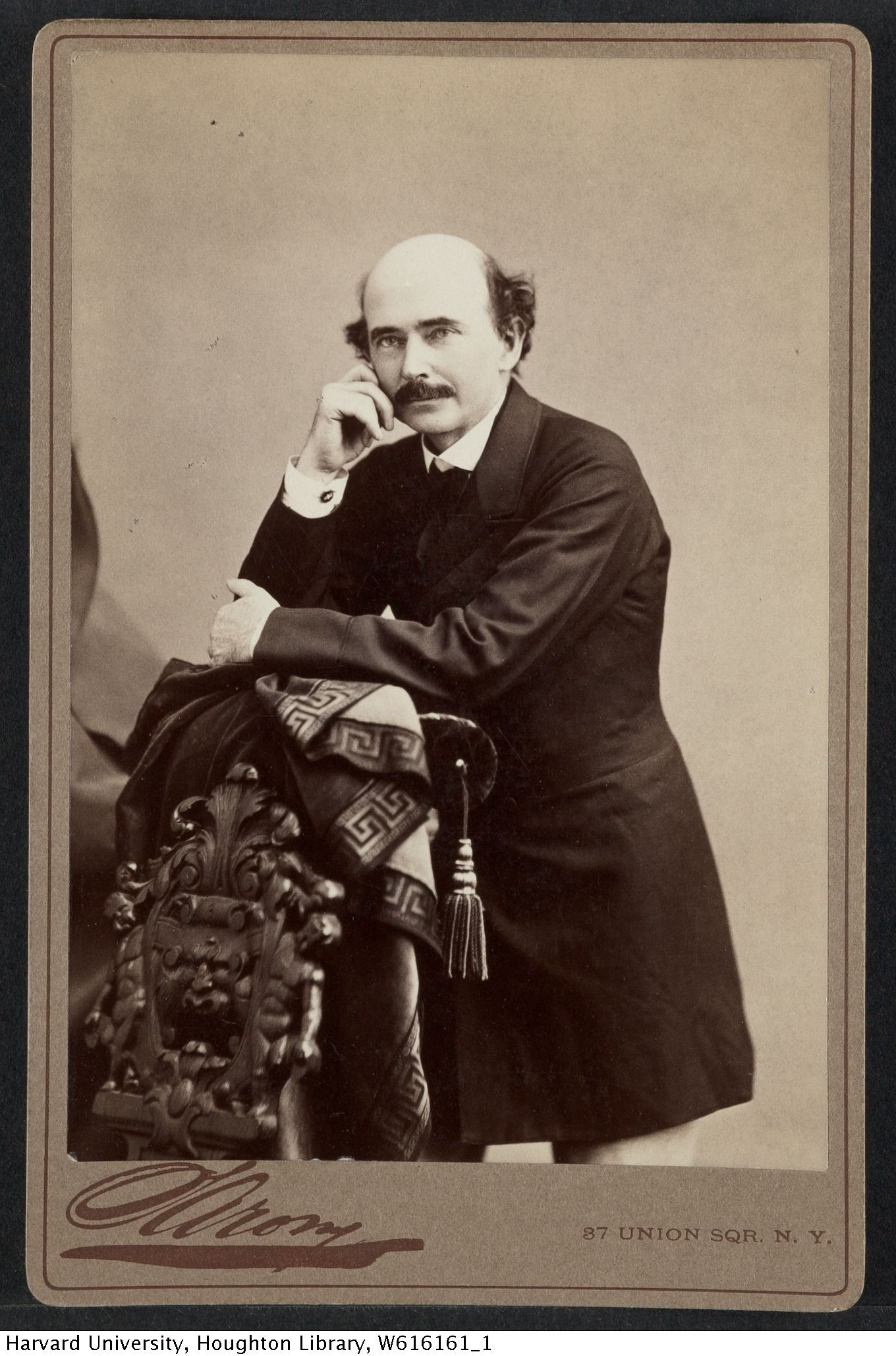 Cabinet card image of Irish actor and playwright Dion Boucicault (1820-1890), leaning against a chair. TCS 1.3259, Harvard Theatre Collection, Harvard University